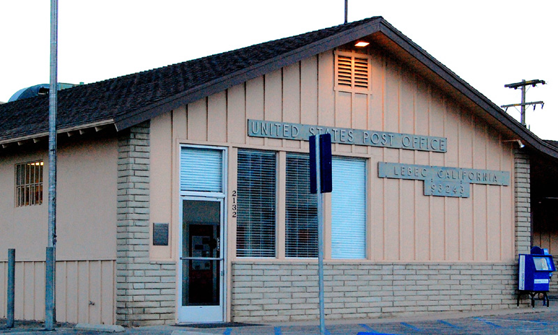 Lebec, California post office in the evening. About this image: Was captured using film or digital camera equipment. May lack artistic merit but documents the existence of the subject(s). May have had elements including colors, composition, gamma, exposure, or size adjusted using camera-, lens-, scanner-settings or by applying image editing software. May have had aberrations, flare, or reflections removed in order that the subject of the image is more clearly visible. Is intended to be representative of the view of the subject that would be perceived by a human eye.